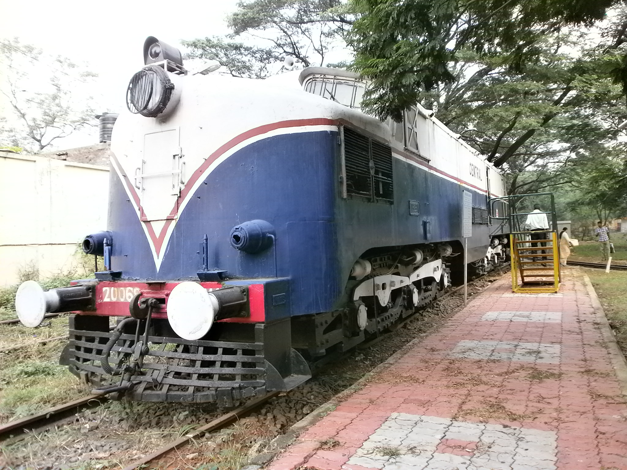 A rail engine displayed at ICF Railway Museum, Chennai, India.